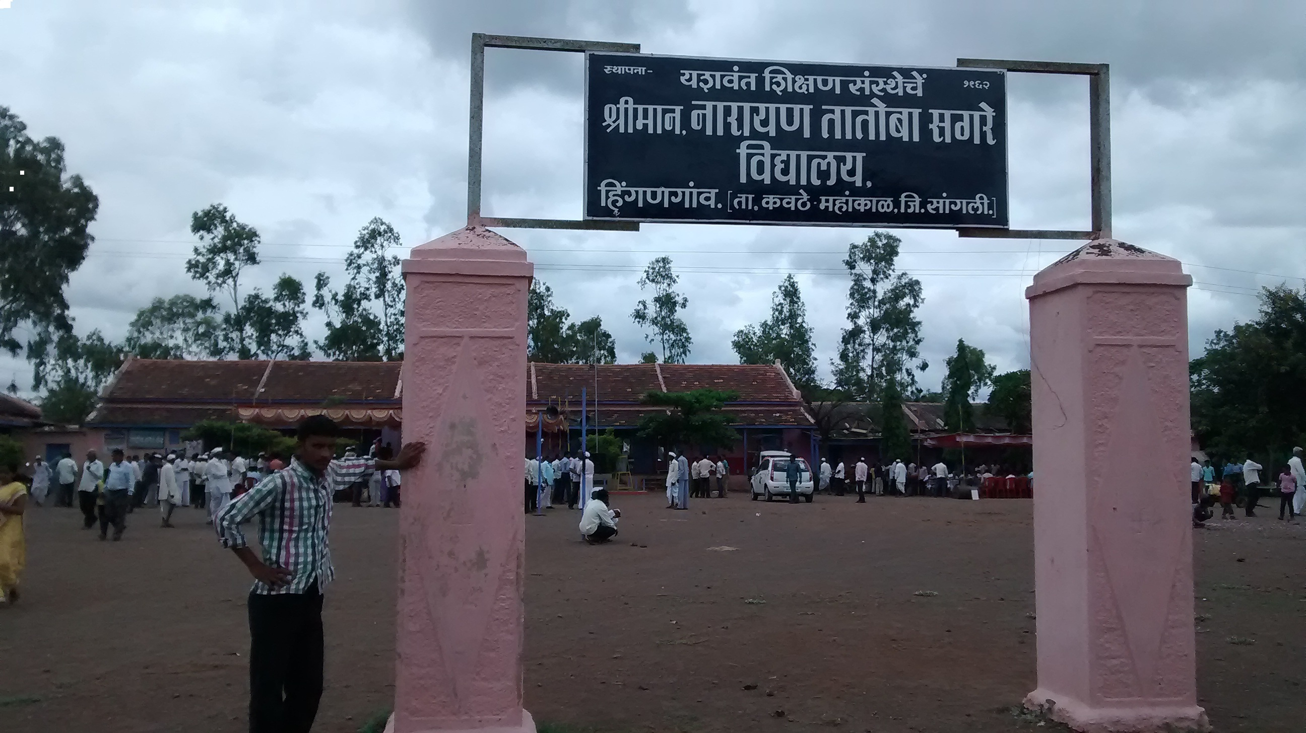 i taken this image by own